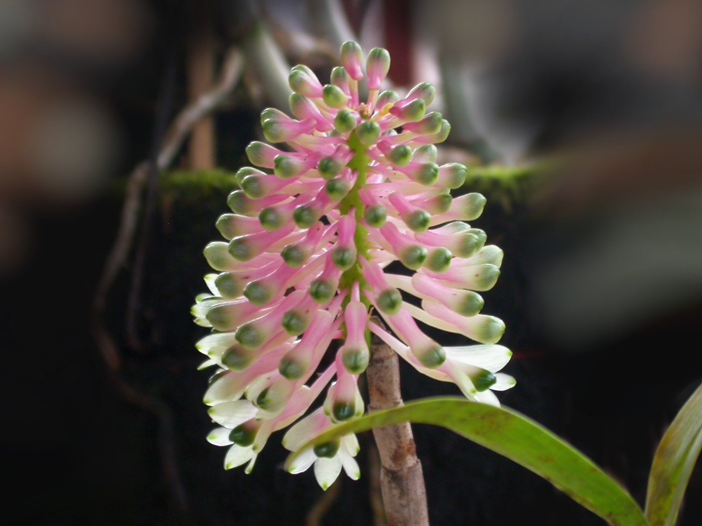 Coelandria smillieae